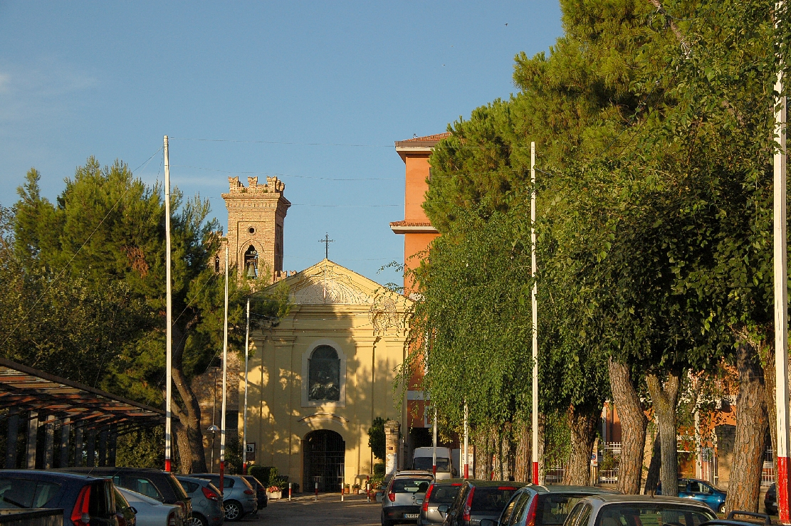 Sant Angelo